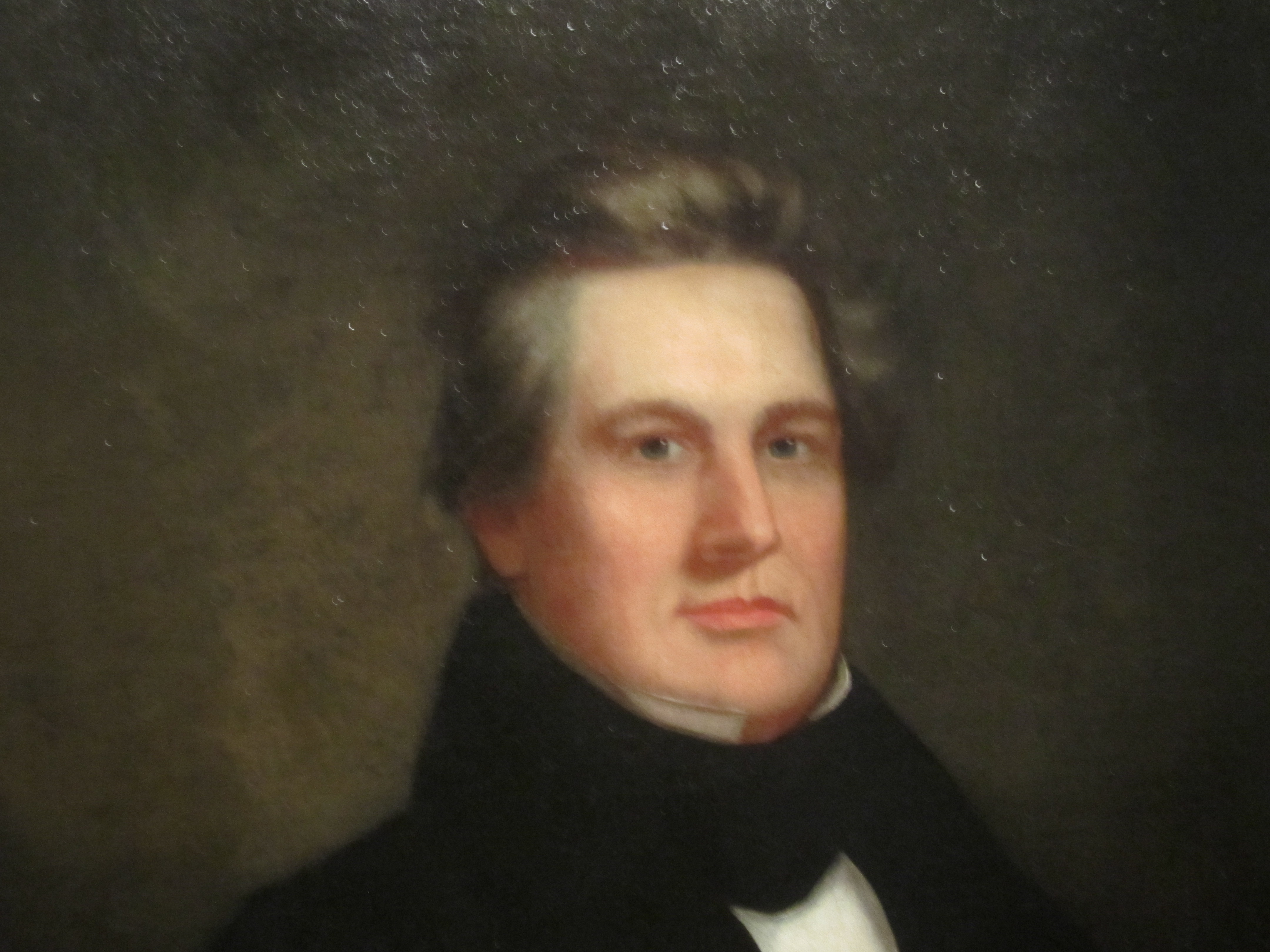 I took photo with Canon camera at National Portrait Gallery of former President Millard Fillmore. U.S. government photo. Public domain.